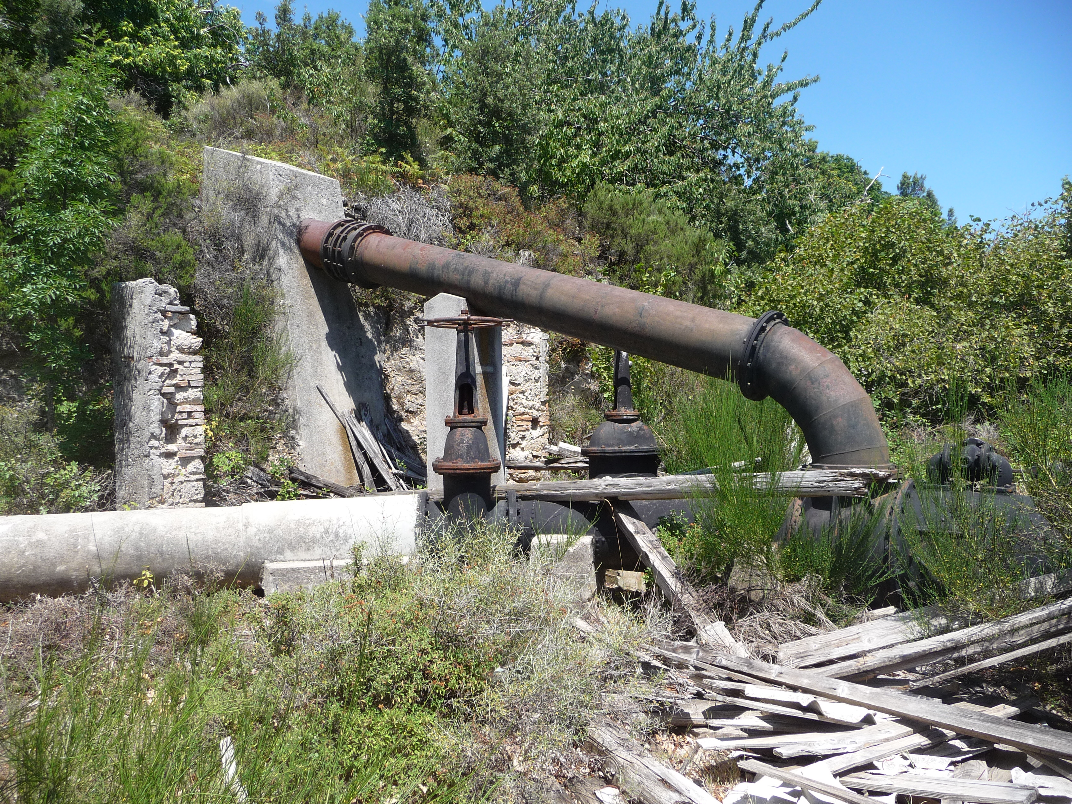 Pipes of ex hydroelectric powerplant Marmarico in Bivongi (Italy)